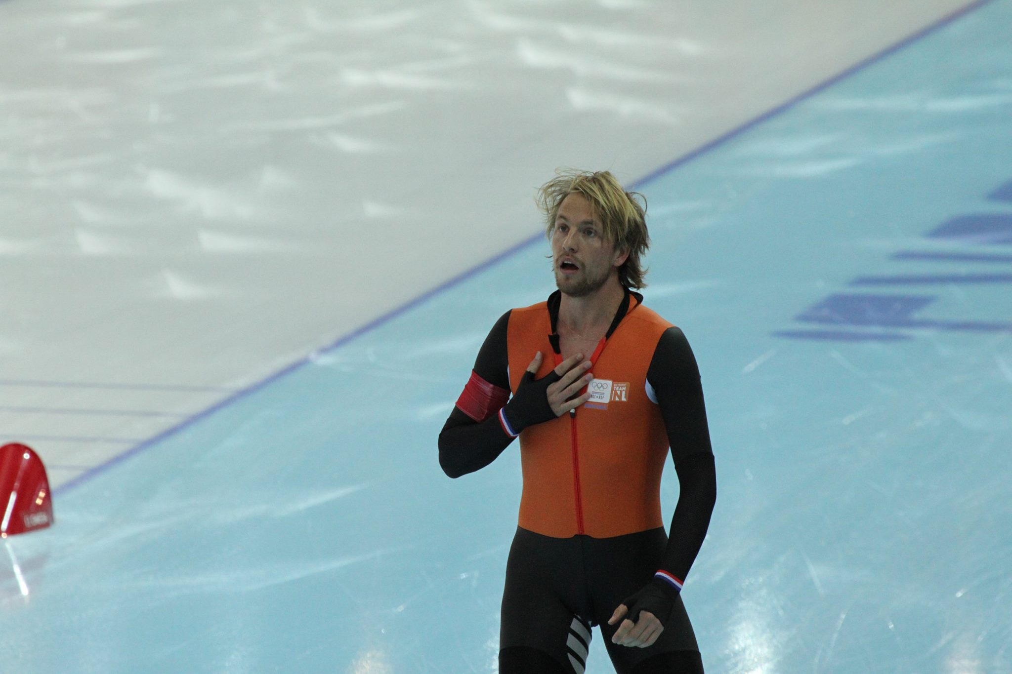 Men's 500m, 2014 Winter Olympics, Michel Mulder. Who won the gold medal??